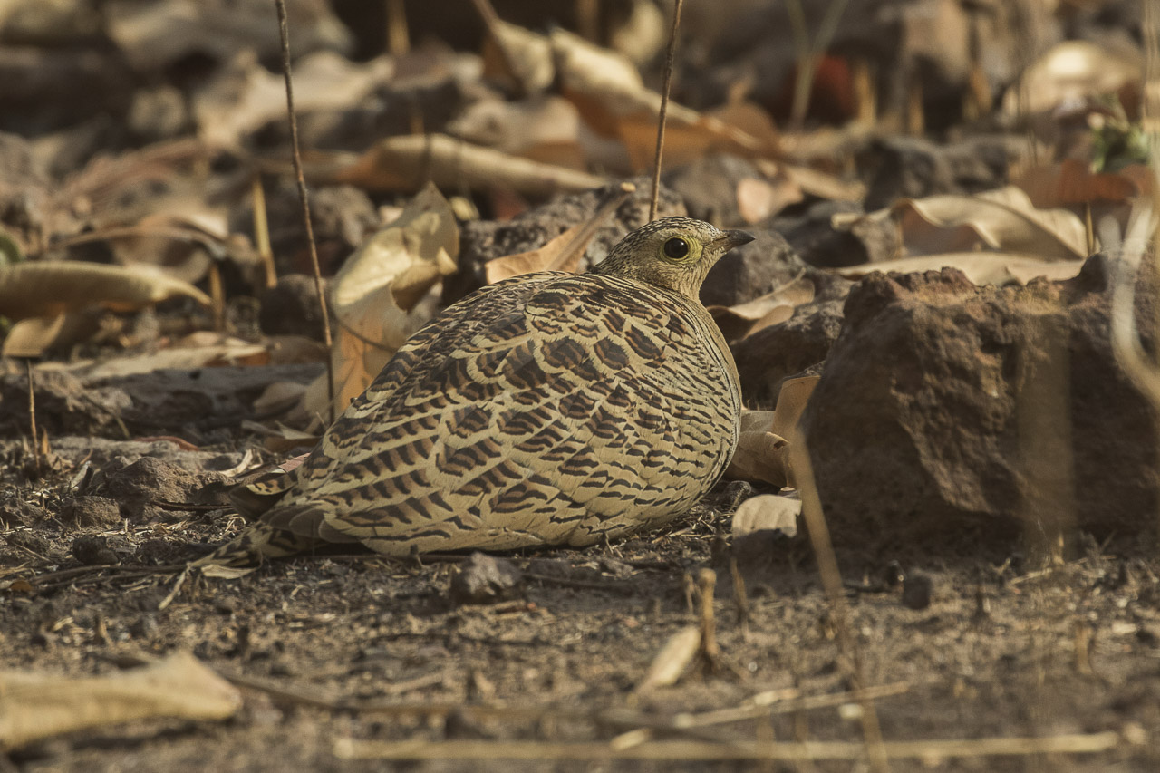 Four-banded Sandgrouse fem - Gambia 17_CD5A2086